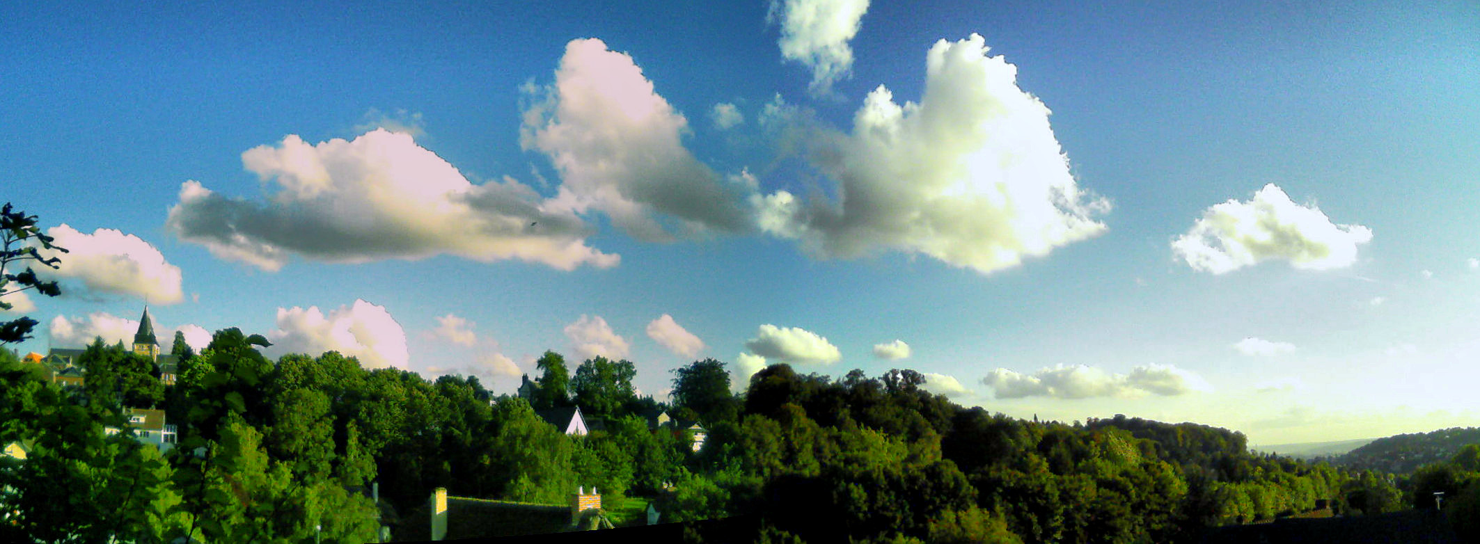 gvdfgr